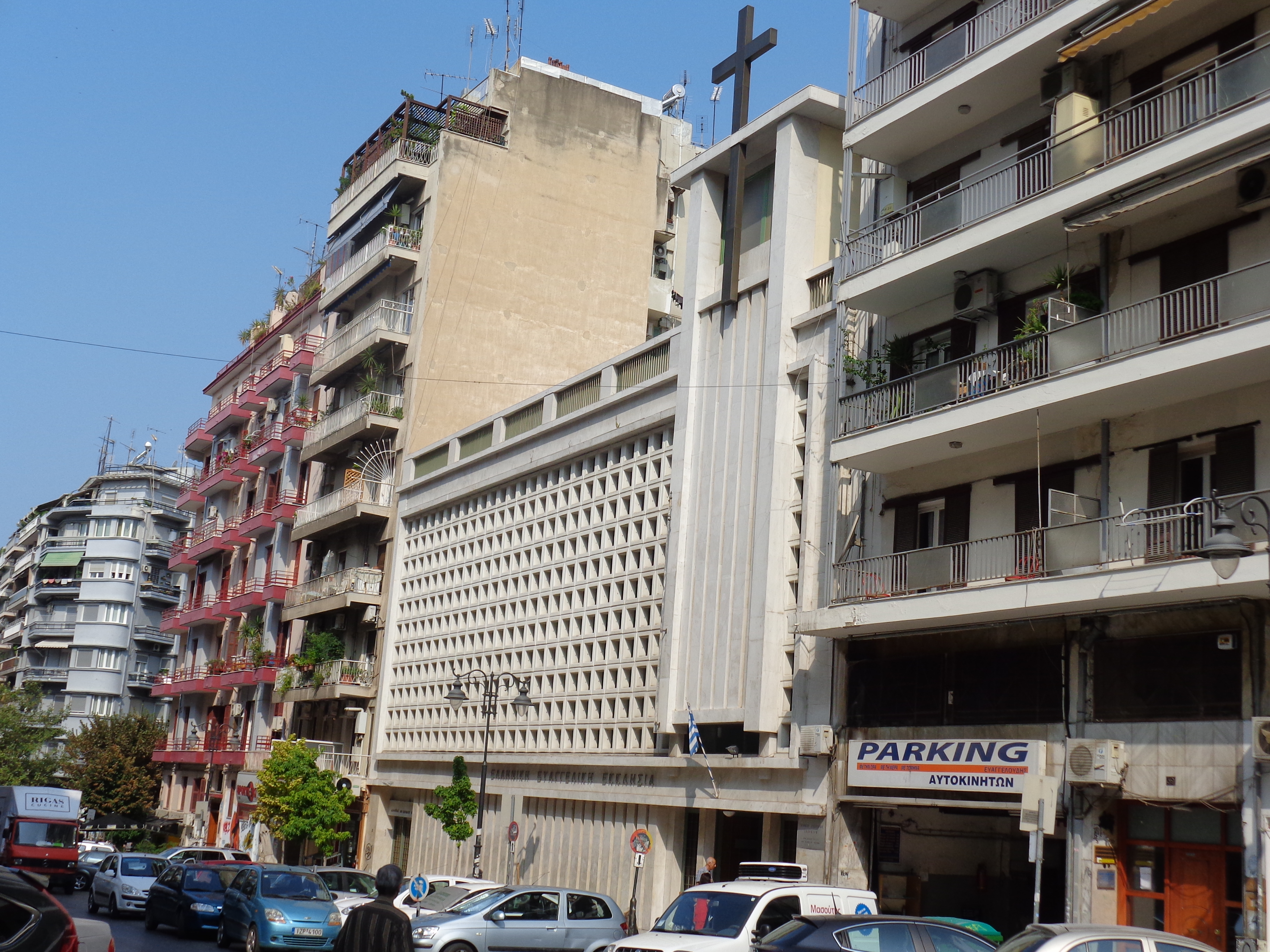 Greek Evangelical Church Thessaloniki, Paleon Patron Germanou, Thessaloniki, Greece